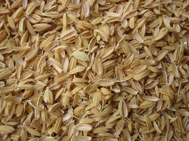 Chaffs of rice Reisspelzen